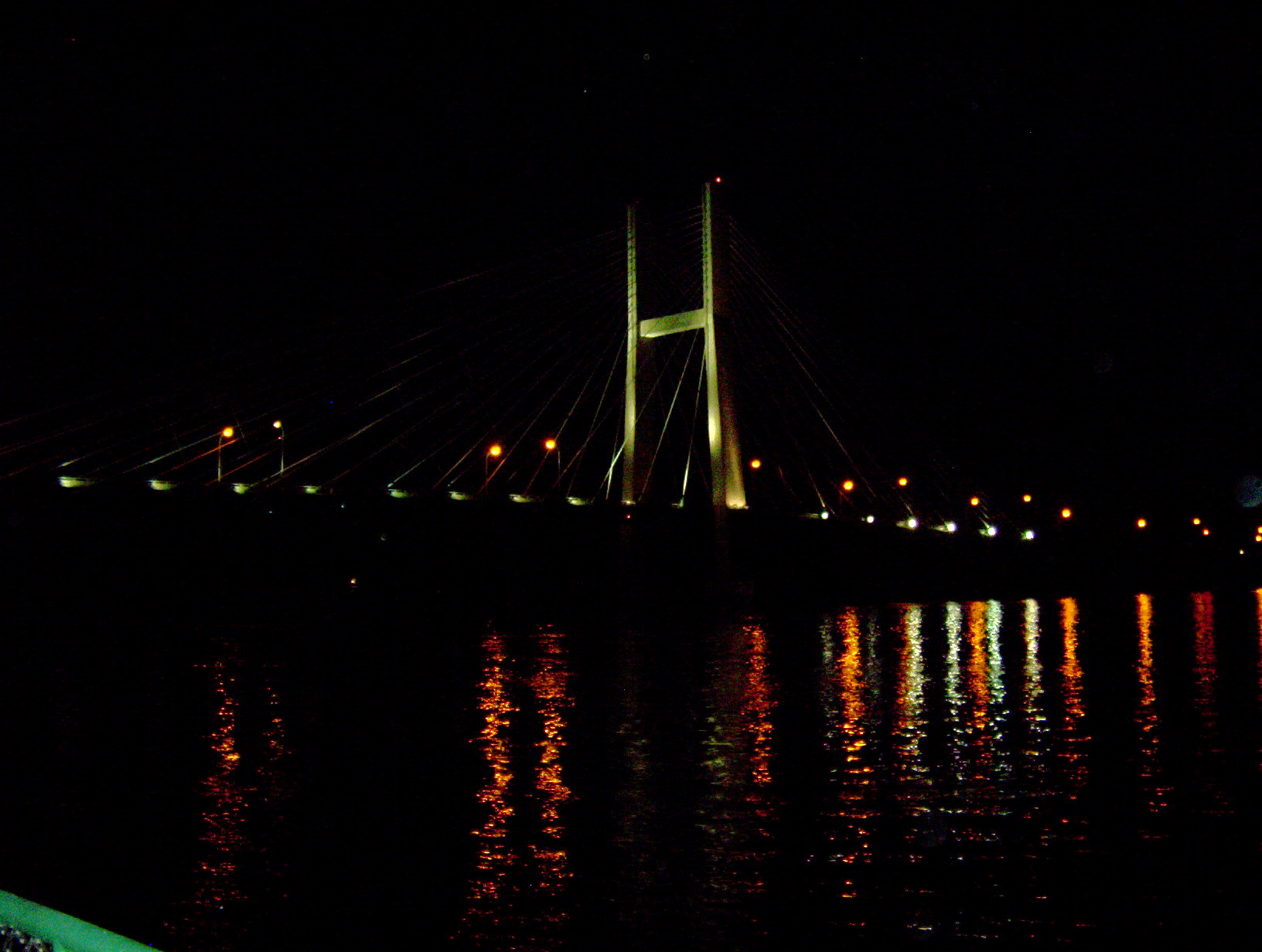 Taken from the Welcome Center on the Iowa side. U.S. 34 runs over the MacArthur Bridge. A higher quality image will be updated later.